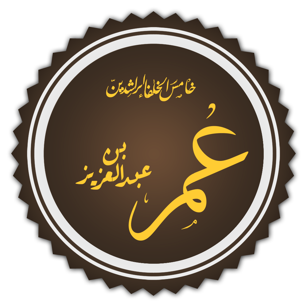 Omar II calligraphy